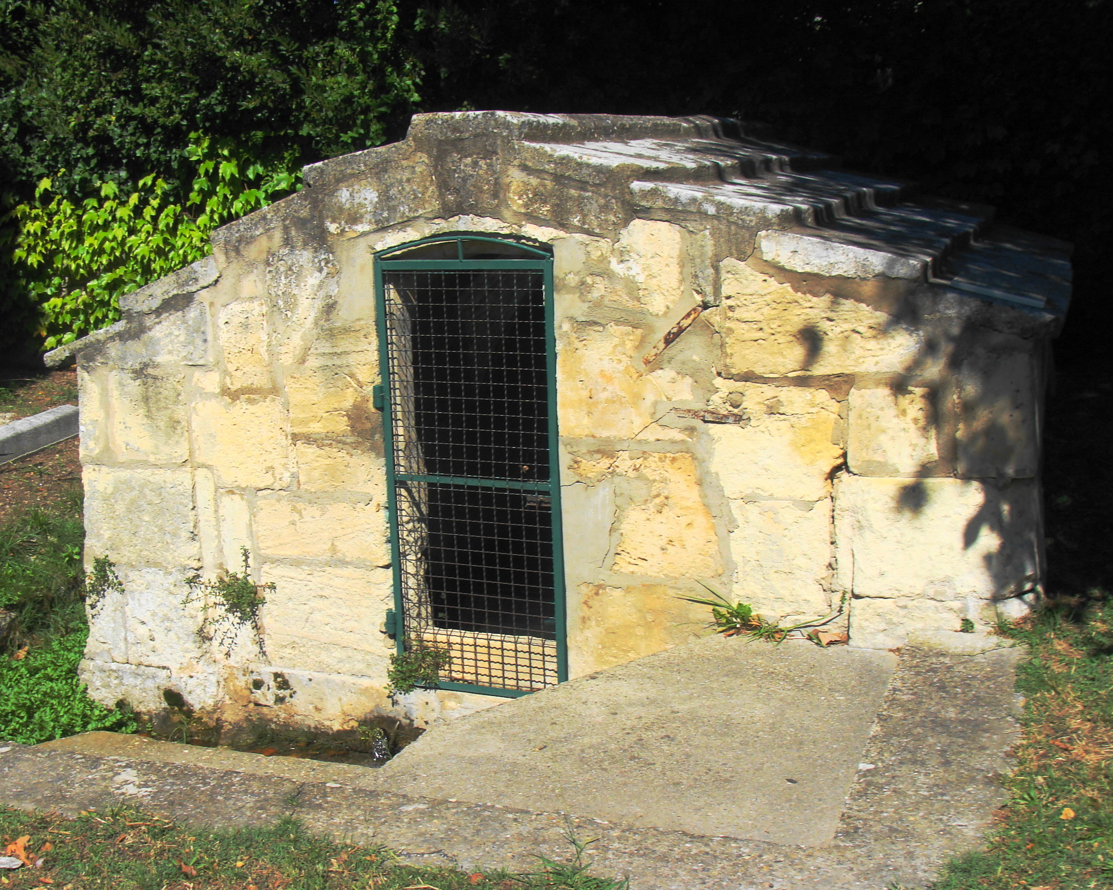 La Vieille Font ("the old spring") - Fontvieille, Provence.